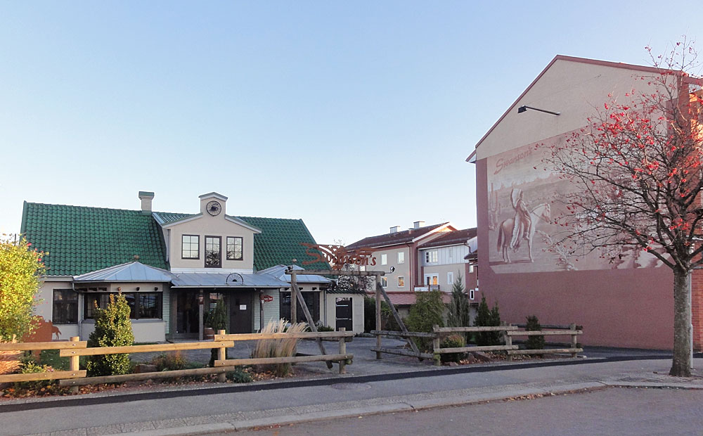 Tour operator Swanson's Travel at Västra Storgatan 32 in Osby, Sweden.